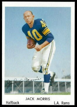 A 1959 promotional image of Los Angeles Rams player Jack Morris.